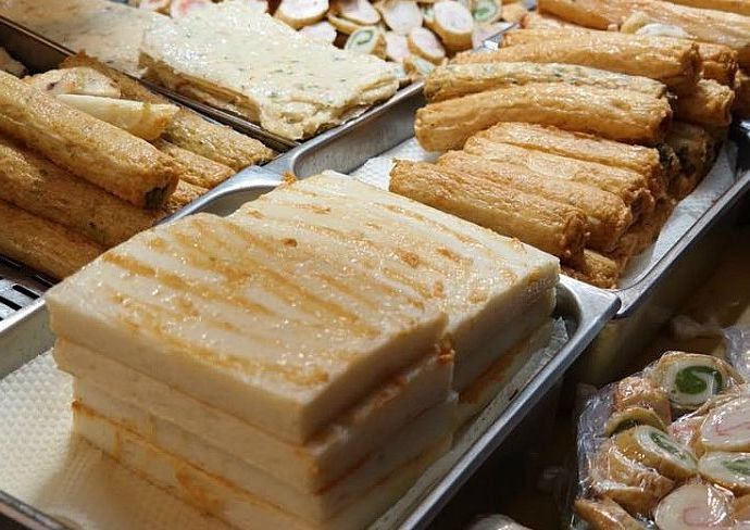 various eomuk (fishcakes)